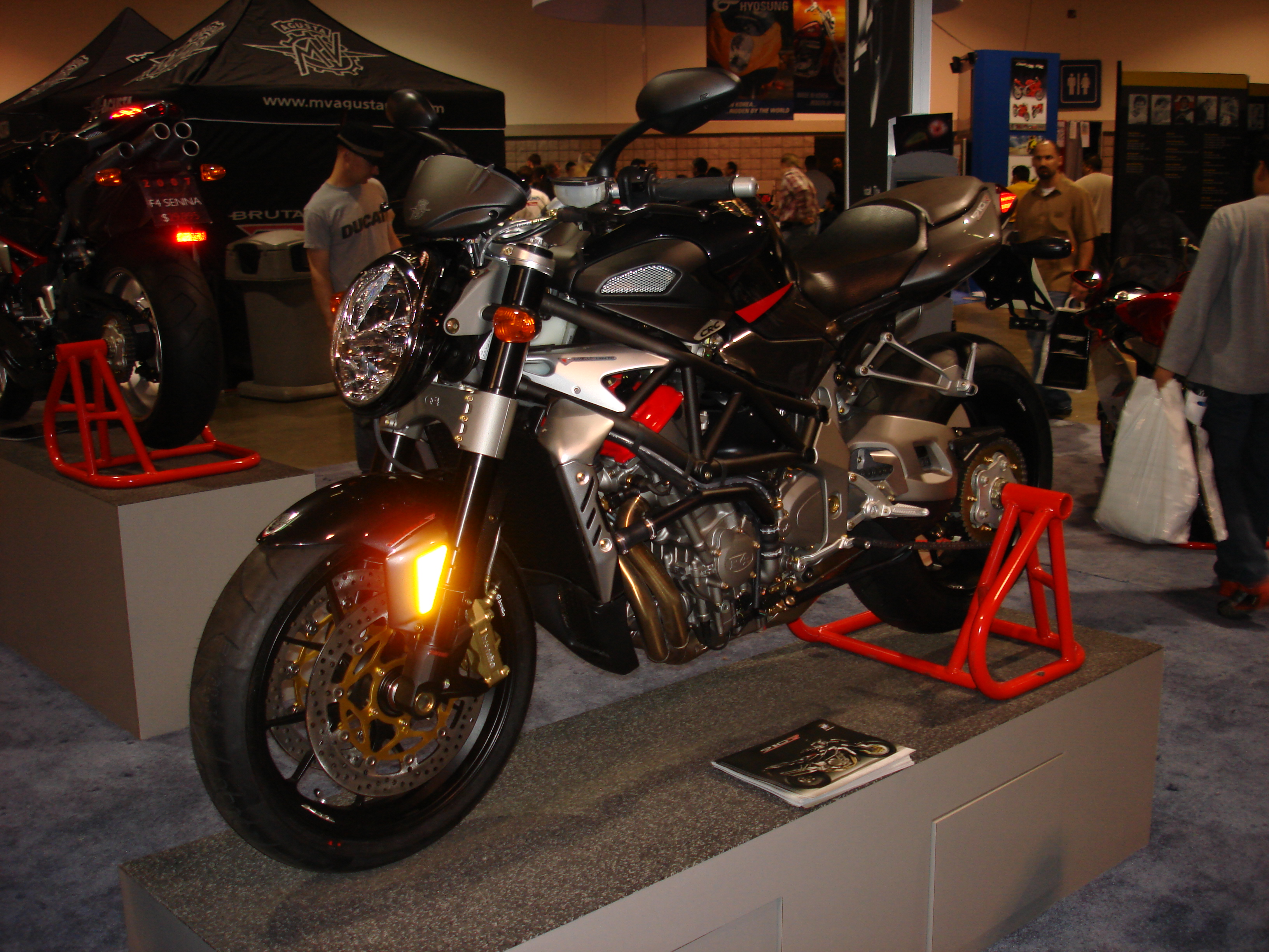 2007 2007 MV Agusta Brutale 910 R on display at the 2006 International Motorcycle Show in Long Beach, CA. Camera used was a Sony Cyber-shot DSC-W100.